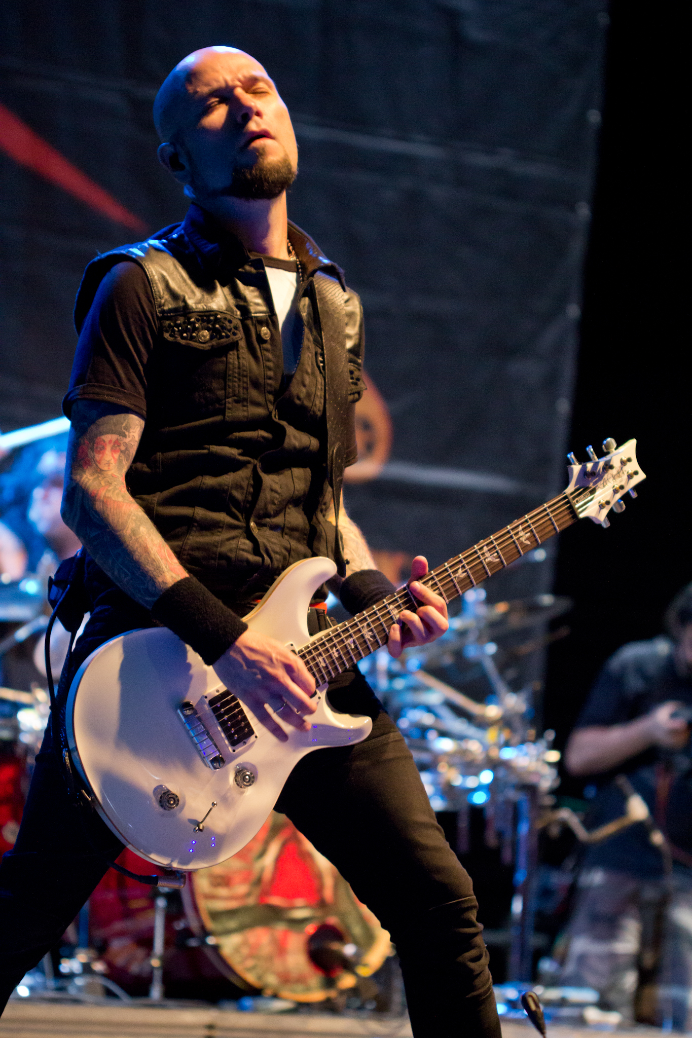 Spanish metal band Sôber at Asaco Metal Fest 2013, Parla, Spain.